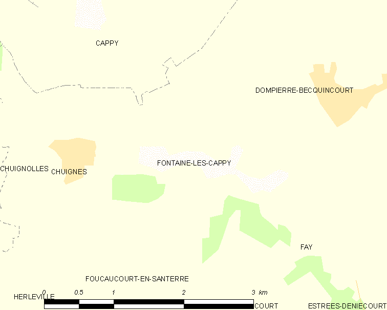 Map of French municipality Fontaine-lès-Cappy